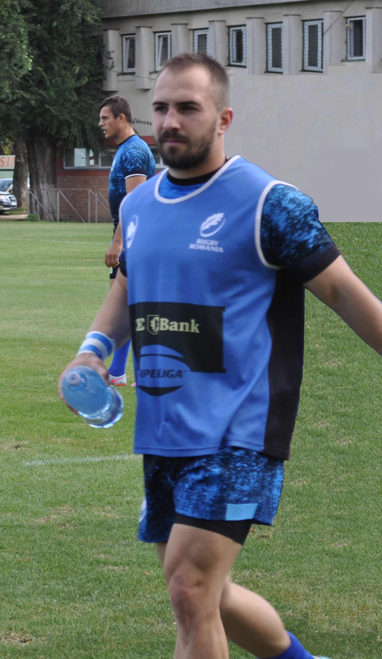 Romanian rugby union international Alexandru Țiglă, player of CSM Baia Mare rugby club seen in a match against CSA Steaua București in Round 5 of Romanian Rugby SuperLiga in September 2017